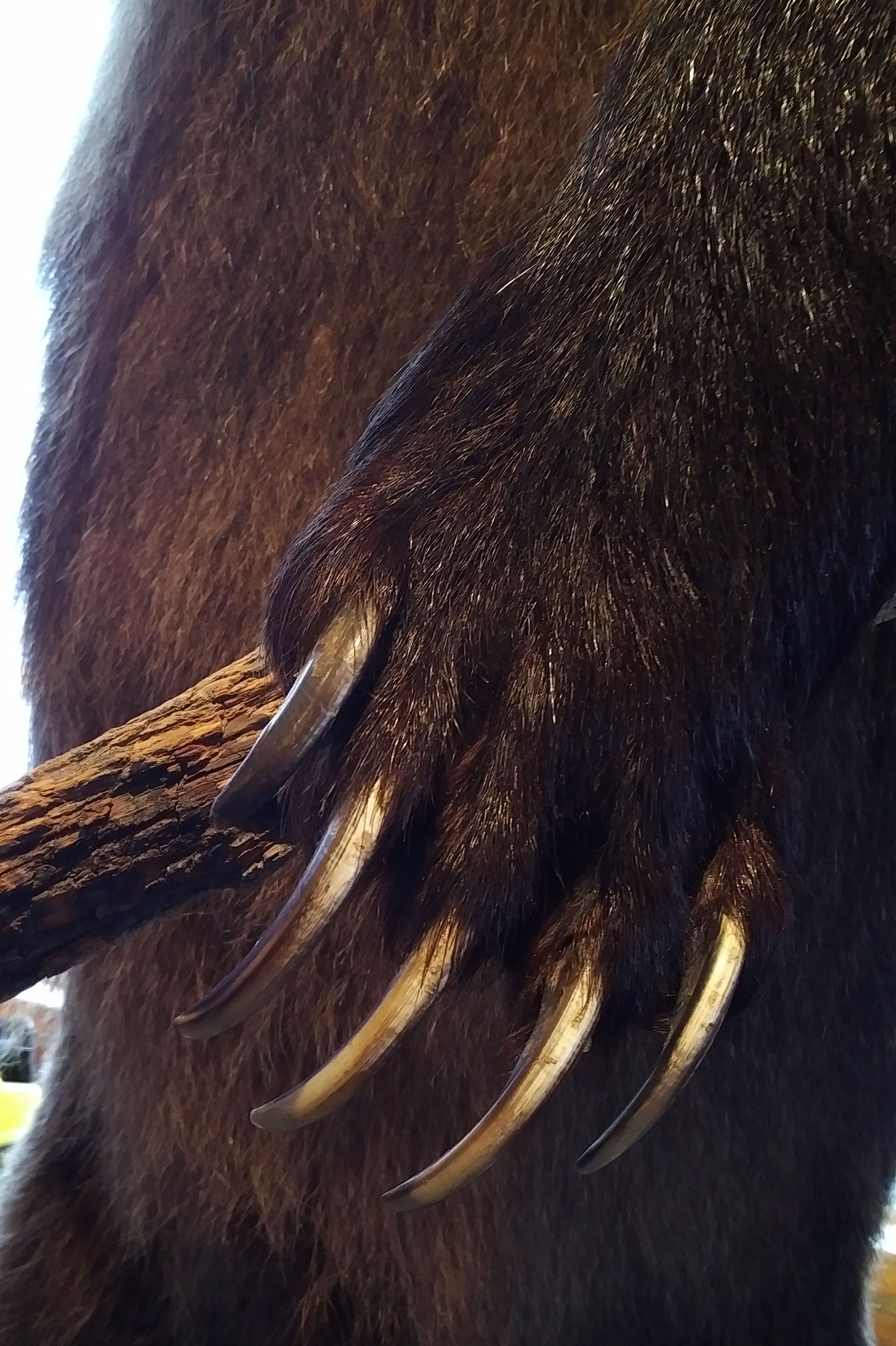 Grizzly claws, Lake Louise, Alberta.